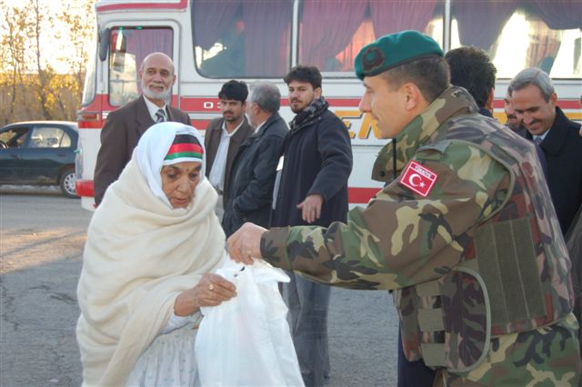 Turkish civil-military cooperation teams from the International Security Assistance Force’s Regional Command – Central aided Afghan civilians participating in the Hajj, a Muslim religious obligation that requires able-bodied followers who can afford to do so to take a pilgrimage to Mecca at least once in their lifetime. ISAF, in coordination with the Afghan government, set up a small camp at the airport in Kabul to provide comfort items, a place to rest, a small mosque and emergency medical care for Afghans on their way to Saudi Arabia for the pilgrimage. “I enjoyed seeing this camp,” Hussein Nasir, one of the Hajjis – or Hajj pilgrims – said. “There was no camp like this before for Hajjis and they were worried.” More than 30,000 Afghans took part in this year’s Hajj.